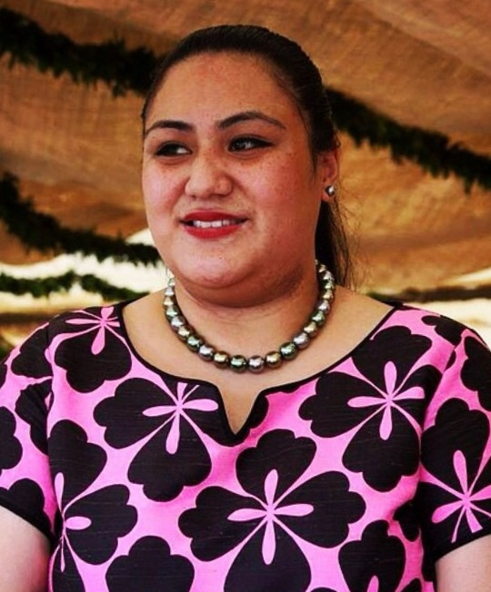 Crown Princess of Tonga at the Garden party on the final day of the celebration and the coronation of her parents-in-law